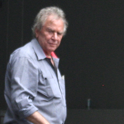 Juvenal Juvêncio, São Paulo Futebol Clube president.